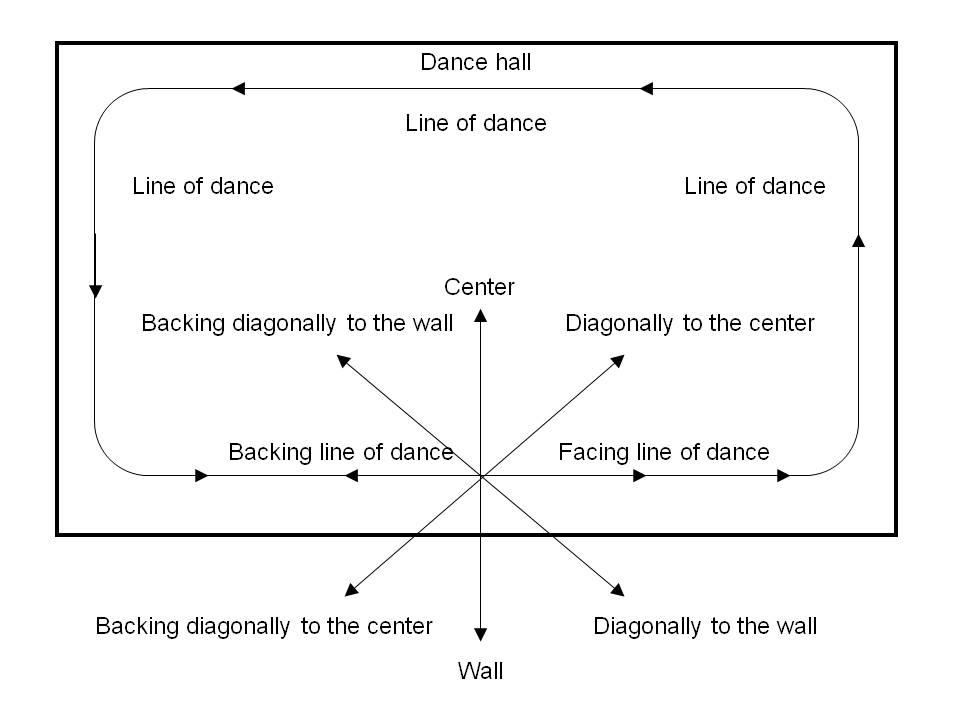 For ballroom dancing, line of dance and directions of movement